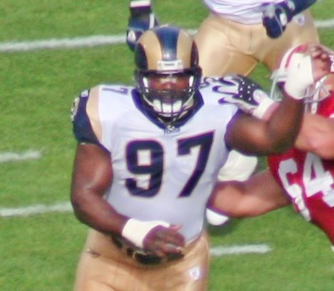 San Francisco 49ers running back Frank Gore takes a handoff from Trent Dilfer and rushes up the middle in the Nov. 18, 2007 game against the St. Louis Rams.